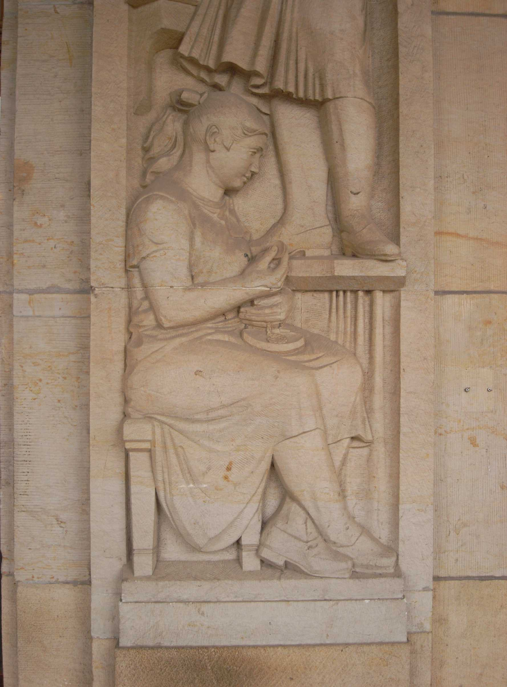 Dresden, Relief on the west side of Altmarkt (app. 1957, R. Wittig/M. Piroch)